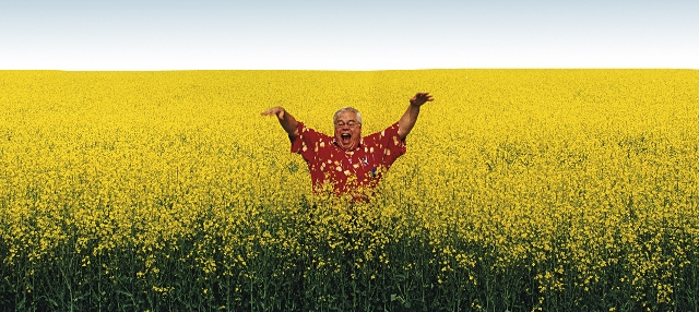 Dr. John in the field